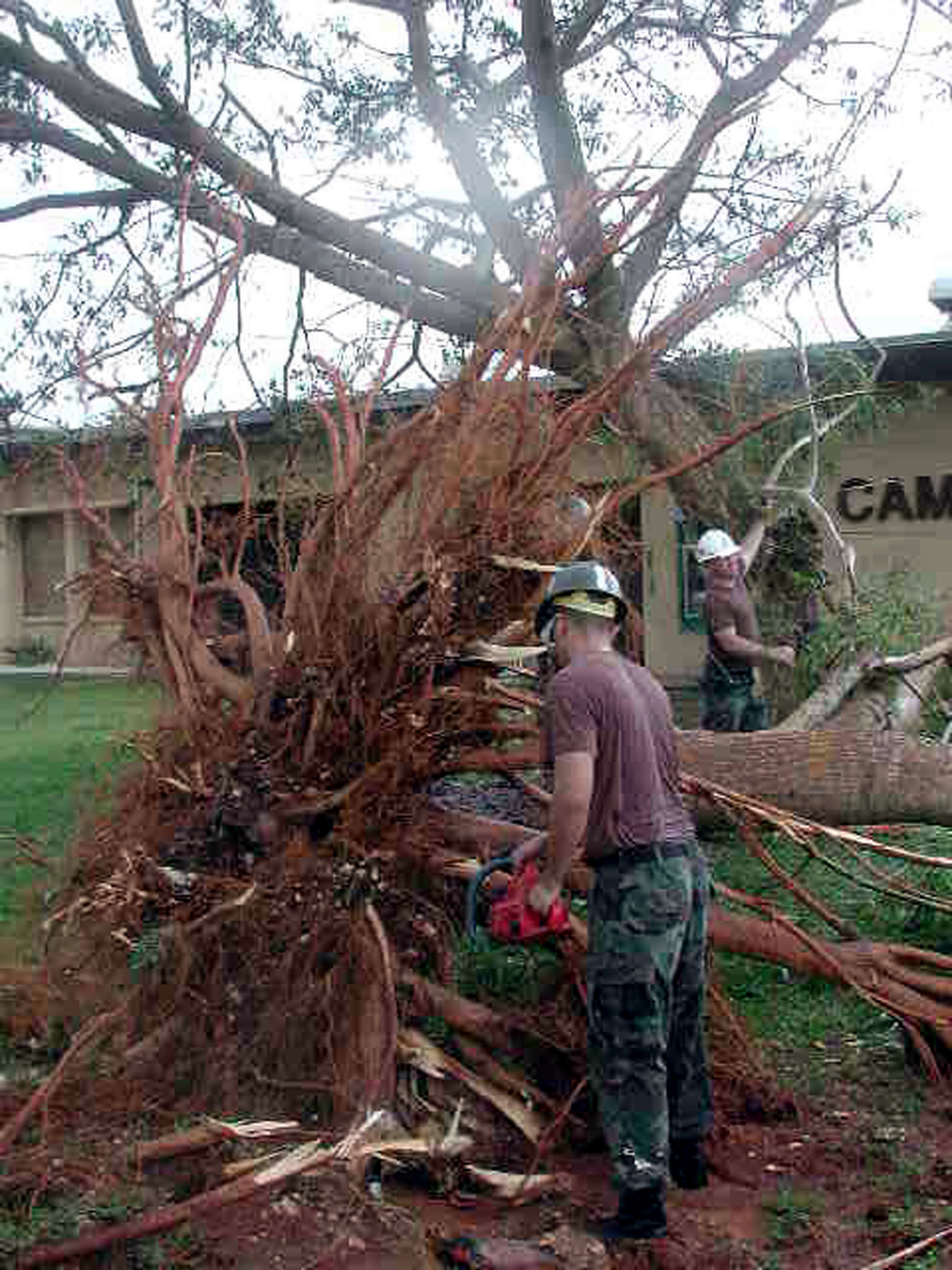 Santa Rita, Guam (Jul. 6, 2002) -- Seabees from Naval Mobile Construction Battalion Four Zero (NMCB 40) begin the long laborious task of dismembering one of the many trees blown over by Typhoon Chataan. The typhoon struck the area on the 4th of July and poured ten inches of rain on the island in less than a day. The typhoon accumulated sustained winds of 110 knots and gusts of up to 135 knots. U.S. Navy photo by Journalist 1st Class Greg Frazho. (RELEASED)